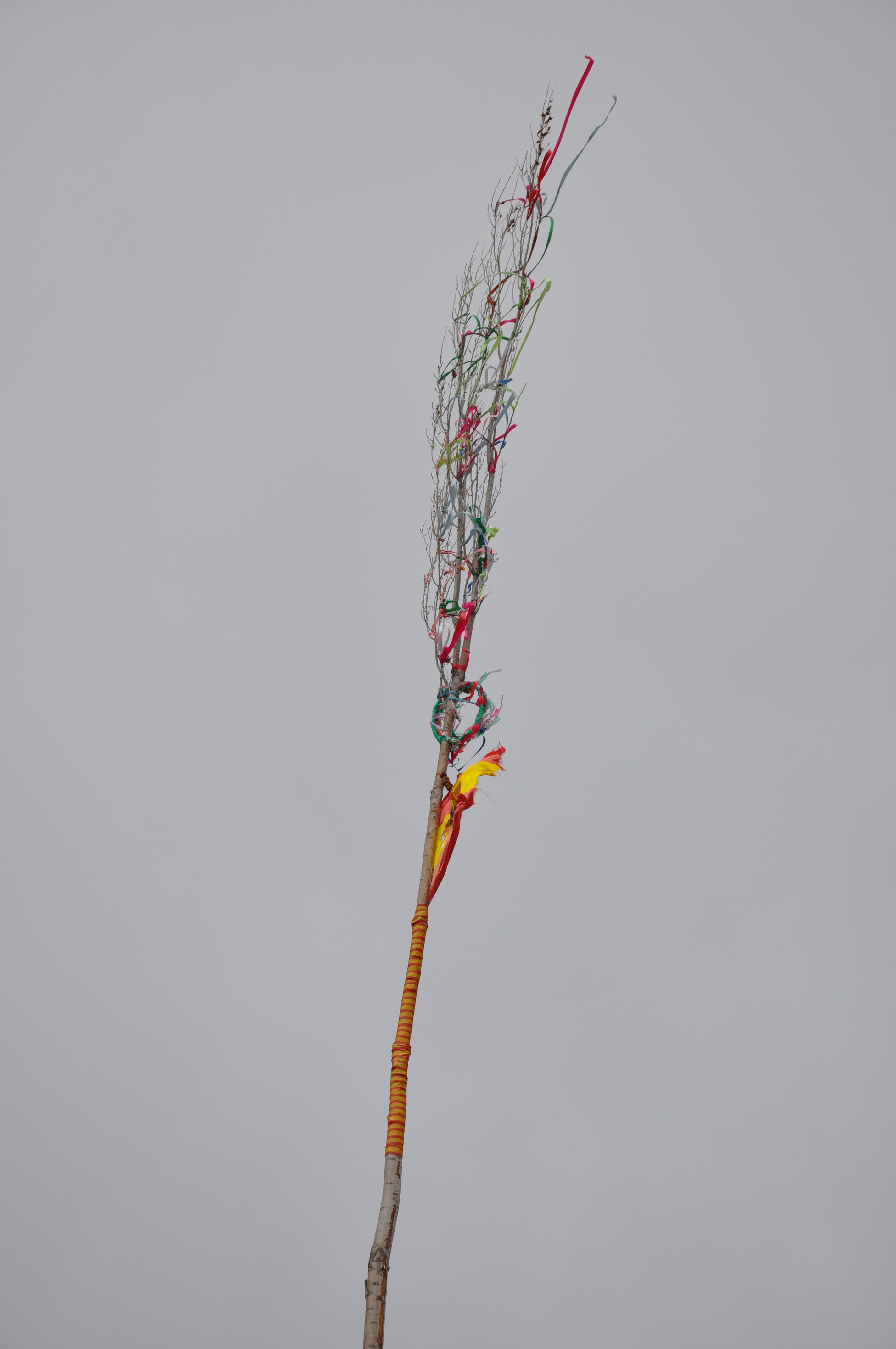 Tree of May in Tórtoles de la Sierra, AV, Spain